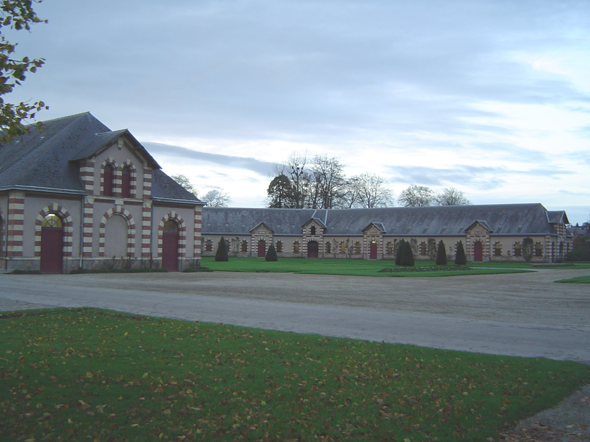 the natinal haras of Saint-Lô